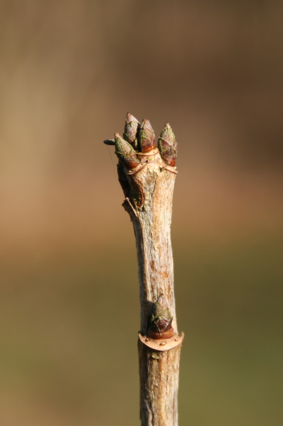 Ribes rubrum: Buds